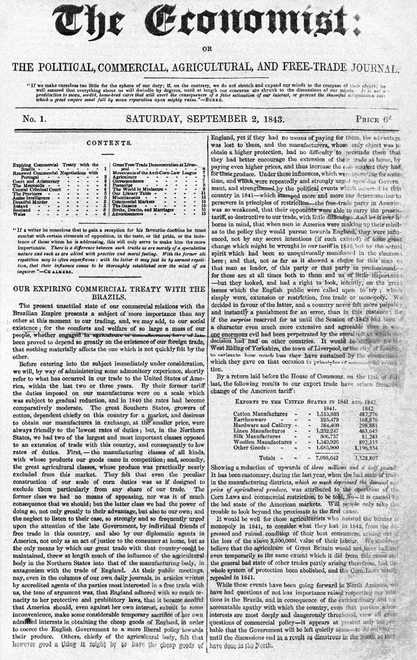 The front page of the first issue of The Economist newspaper, on Sept 2, 1843.